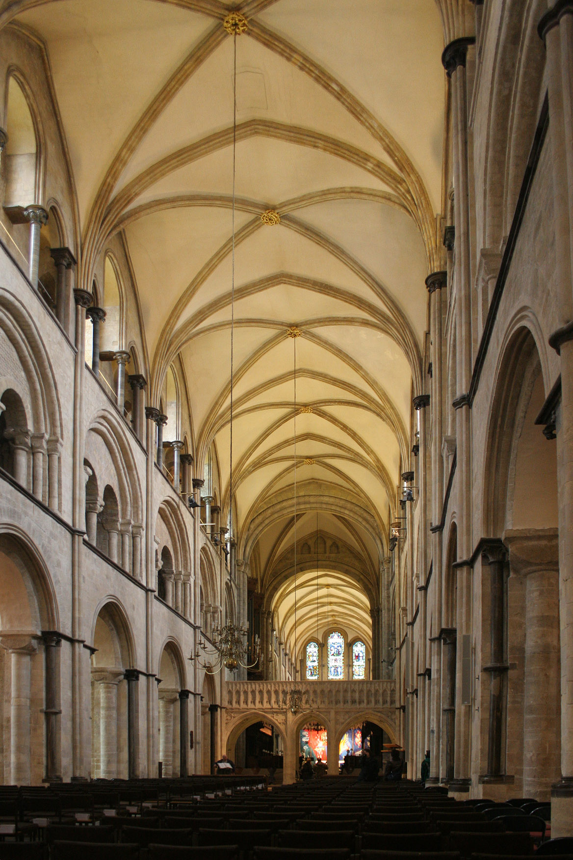 The nave of Chichester Cathedral, West Sussex, UK. (1168x1752 px, 495,616 bytes)